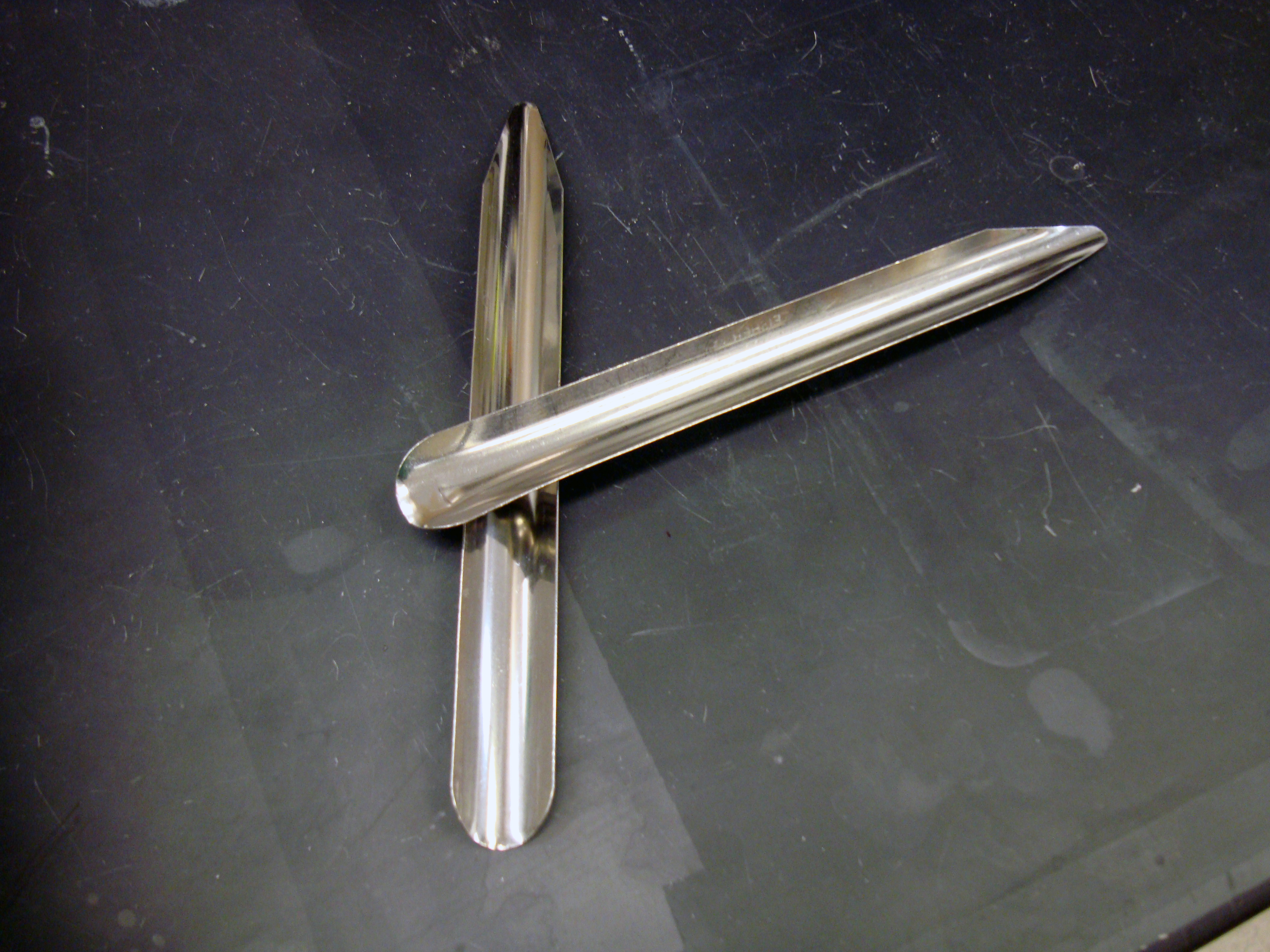 Picture of two scoopulas arranged one on top of the other to give a full view.